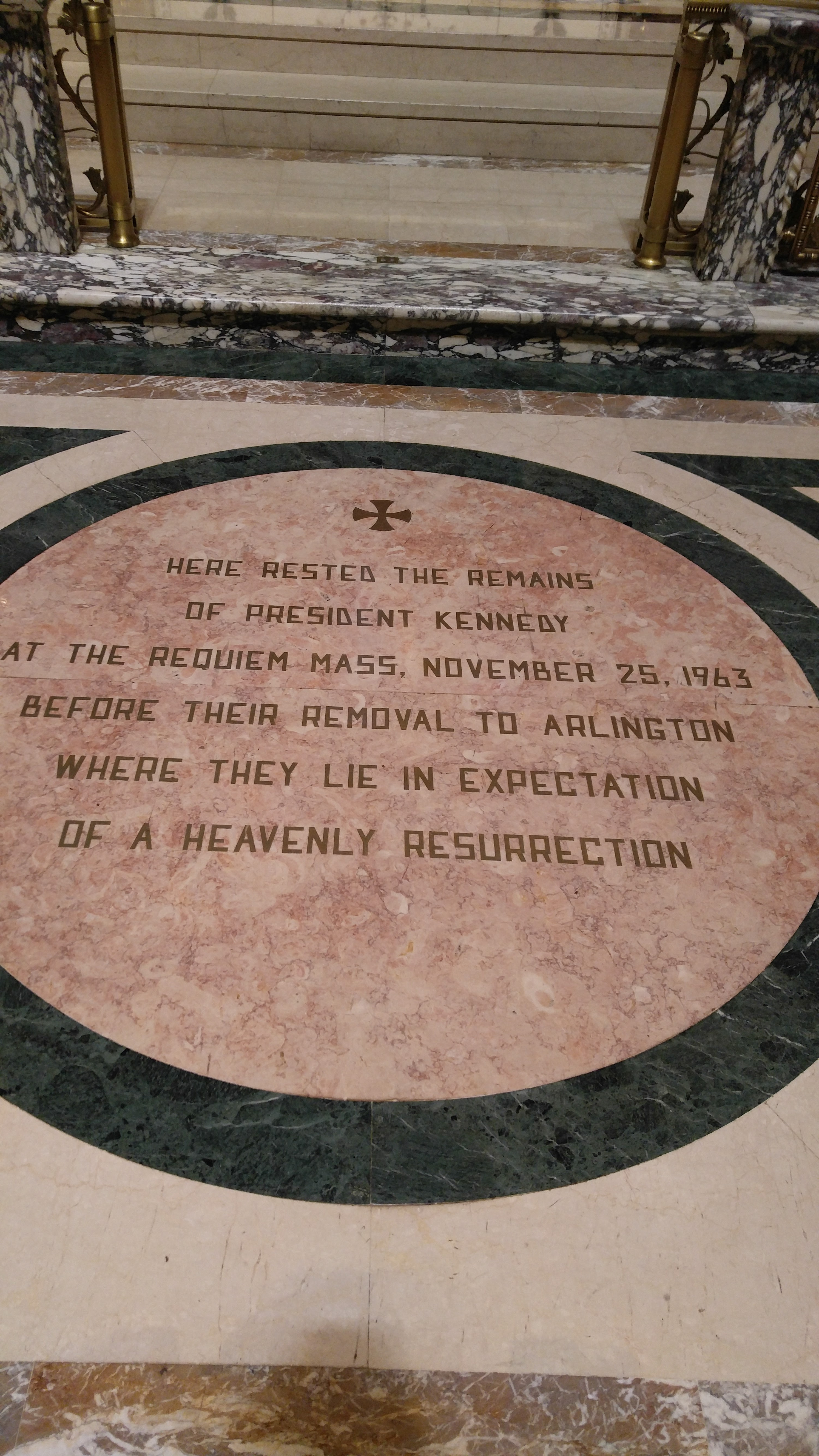 The Tile floor of the Cathedral of St Matthew in Washington DC marking where the casket of President John F Kennedy was placed for his funeral at that cathedral.